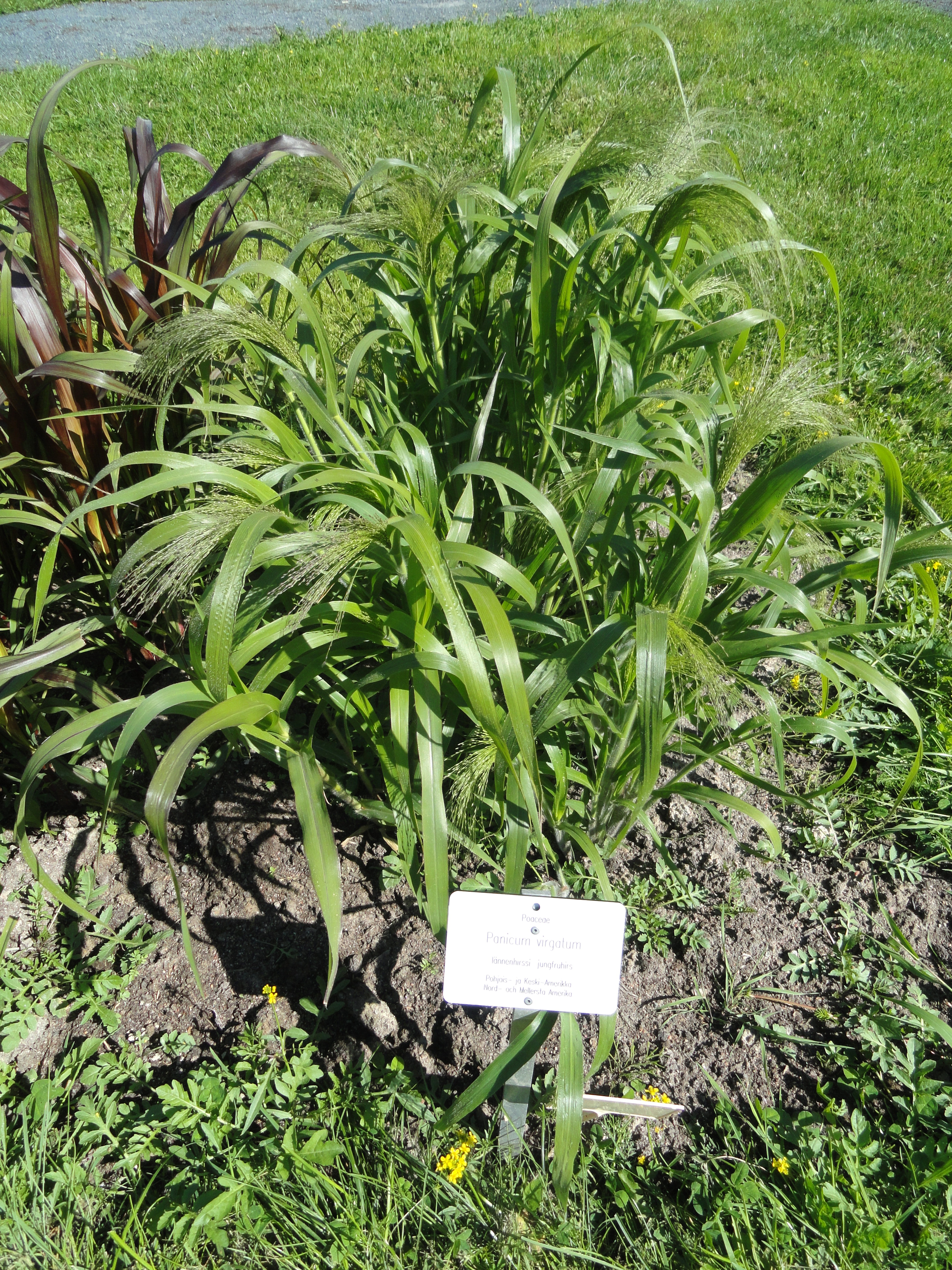 Botanical specimen. The University of Helsinki Botanical Garden at Kaisaniemi. This appears to be Panicum virgatum 'Fontaine.'